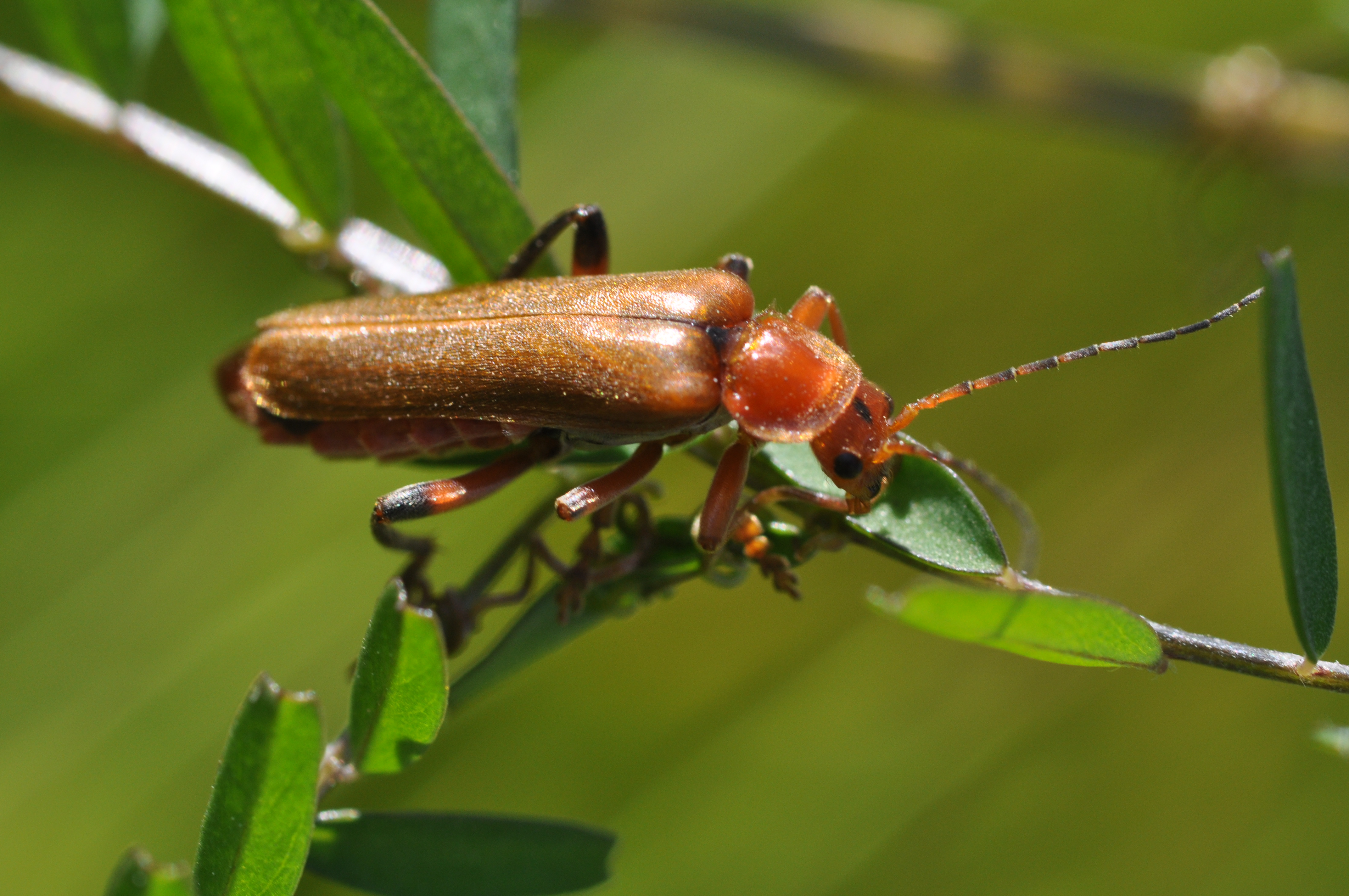 Soldier beetle Cantharis livida in Bahrenfeld, Hamburg.